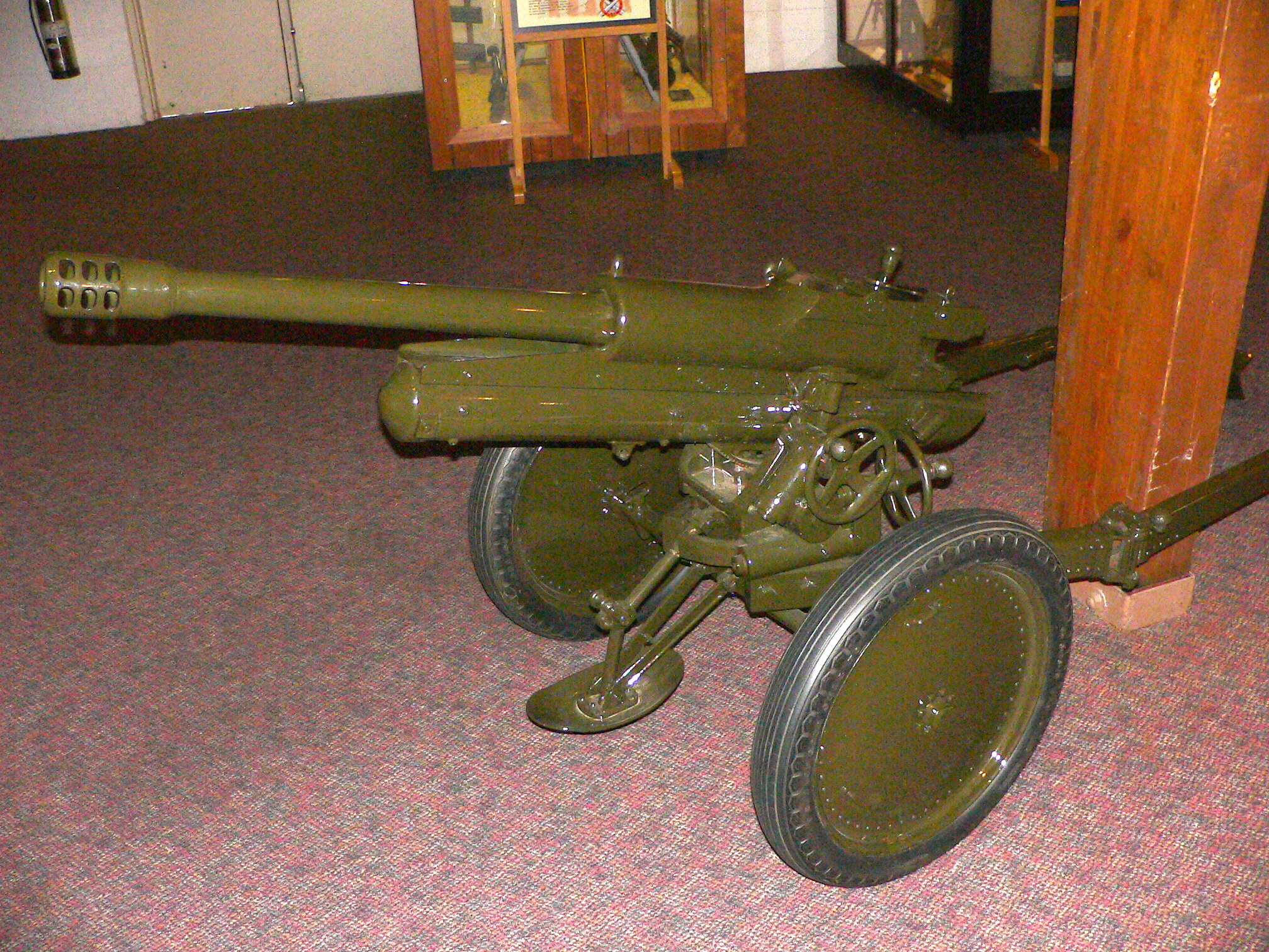 Picture taken by myself, Mark Pellegrini, at the United States Army Ordnance Museum (Aberdeen Proving Ground, MD) on August 14, 2007.